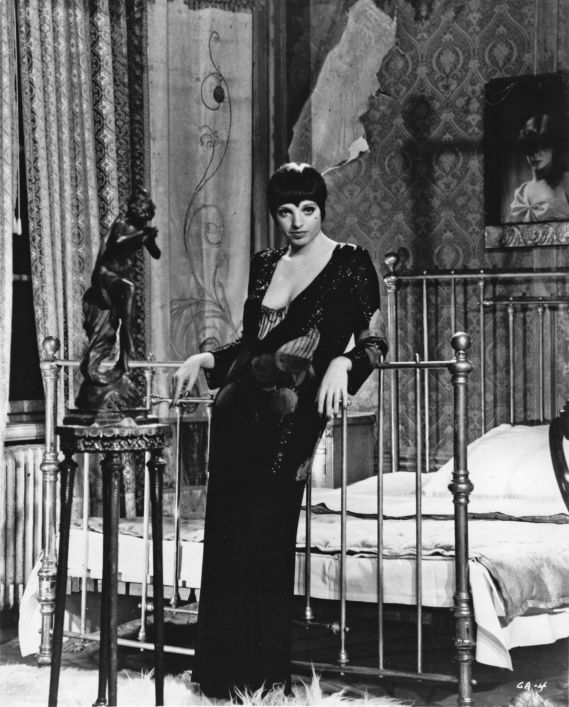 Photo of Liza Minnelli as Sally Bowles from the film Cabaret.